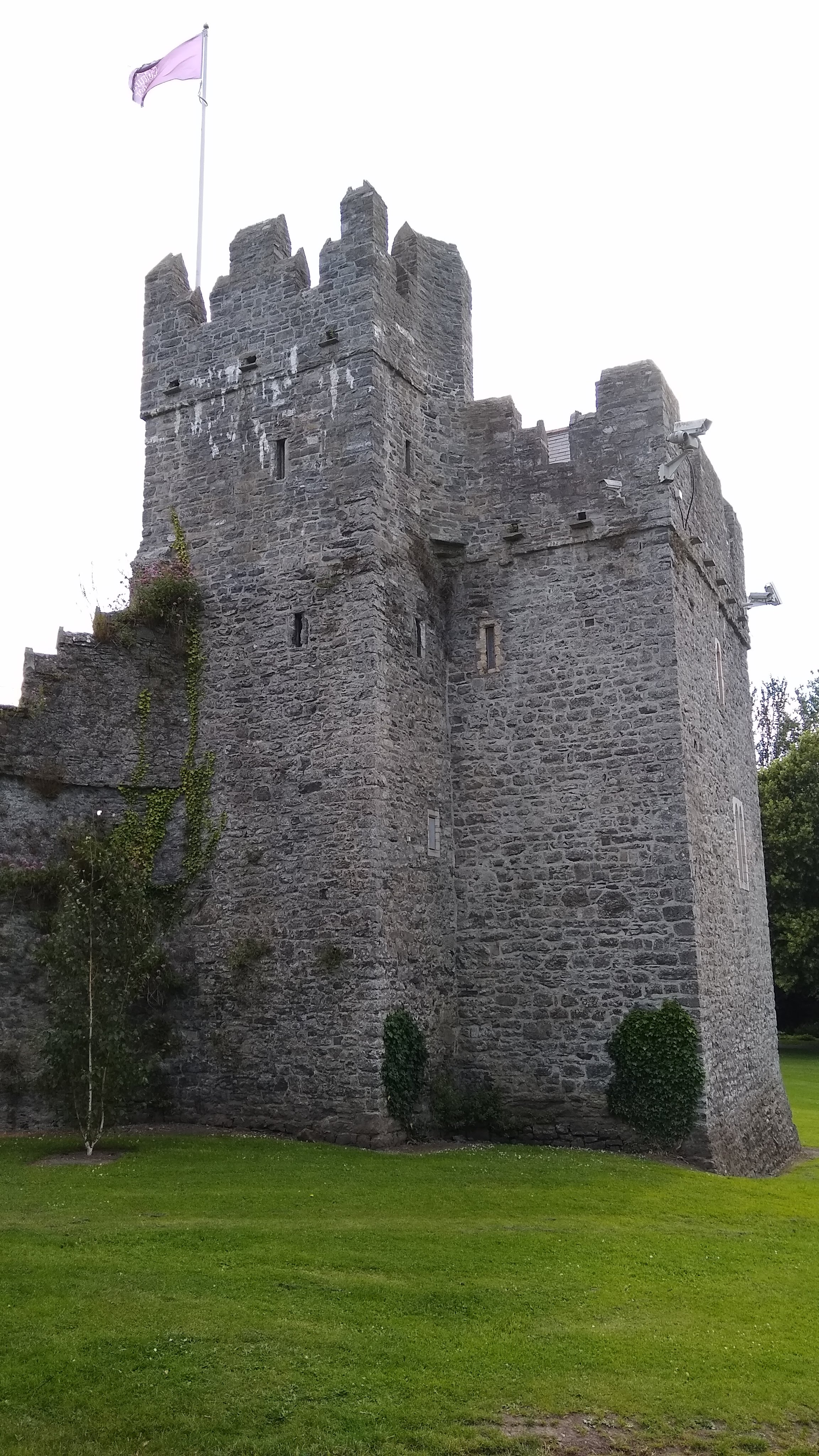 The Constable's Tower, Swords Castle, viewed from the surrounding park.